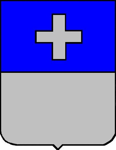 Gritti family coat of arms